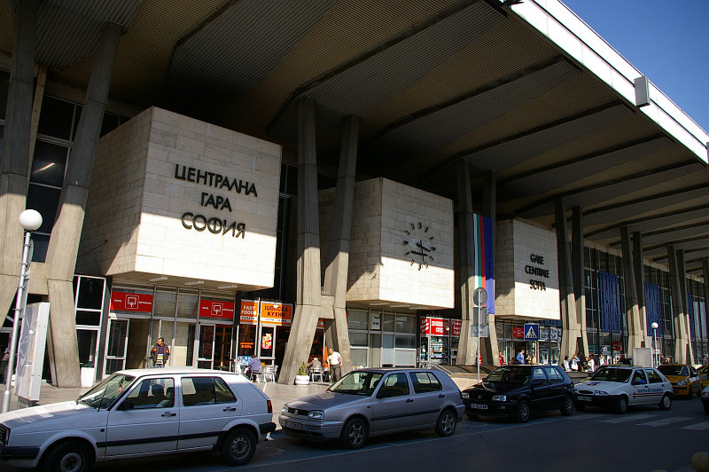 Sofia Central Station, Main building entrance